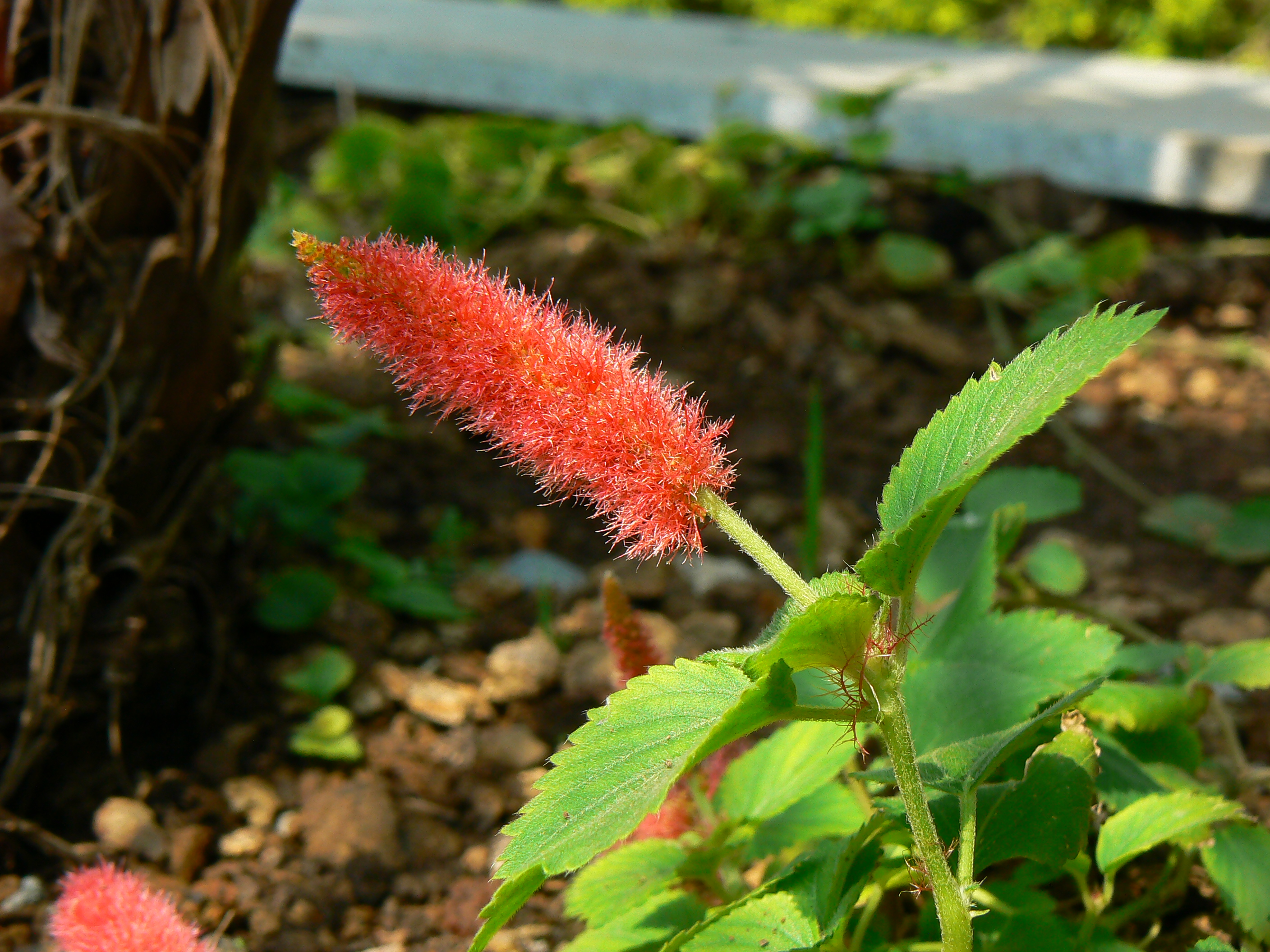 Chenille Plant, Dwarf Cat Tail, Kitten's Tail, Red Cat's Tail, Shibjhul, Strawberry Firetails, Strawberry Foxtail, Trailing Chenille Plant Blogged at: Slice of the Day by Vasant M. Salian